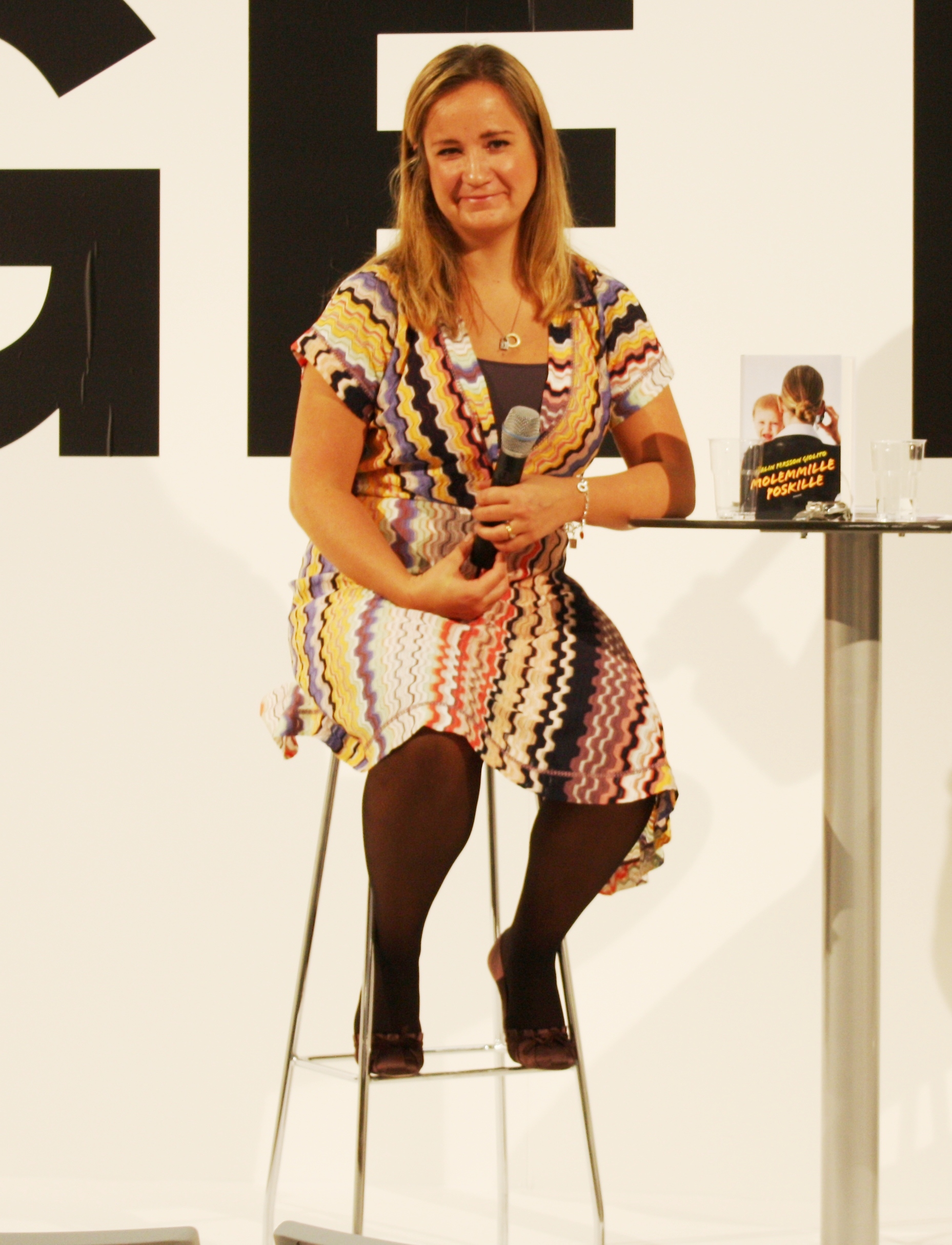 Swedish writer Malin Persson Giolito at Helsinki Book Fair 2009